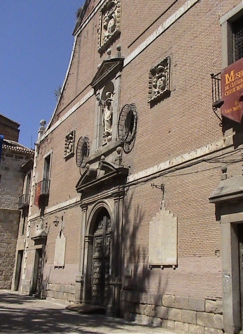 Cistercian convent of San Bernardo, or "de las Bernardas", Alcalá de Henares (Community of Madrid - Spain). Founded in 1613 by Cardinal Bernardo de Sandoval y Rojas.